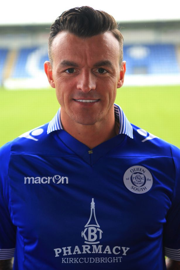 Pen Pic